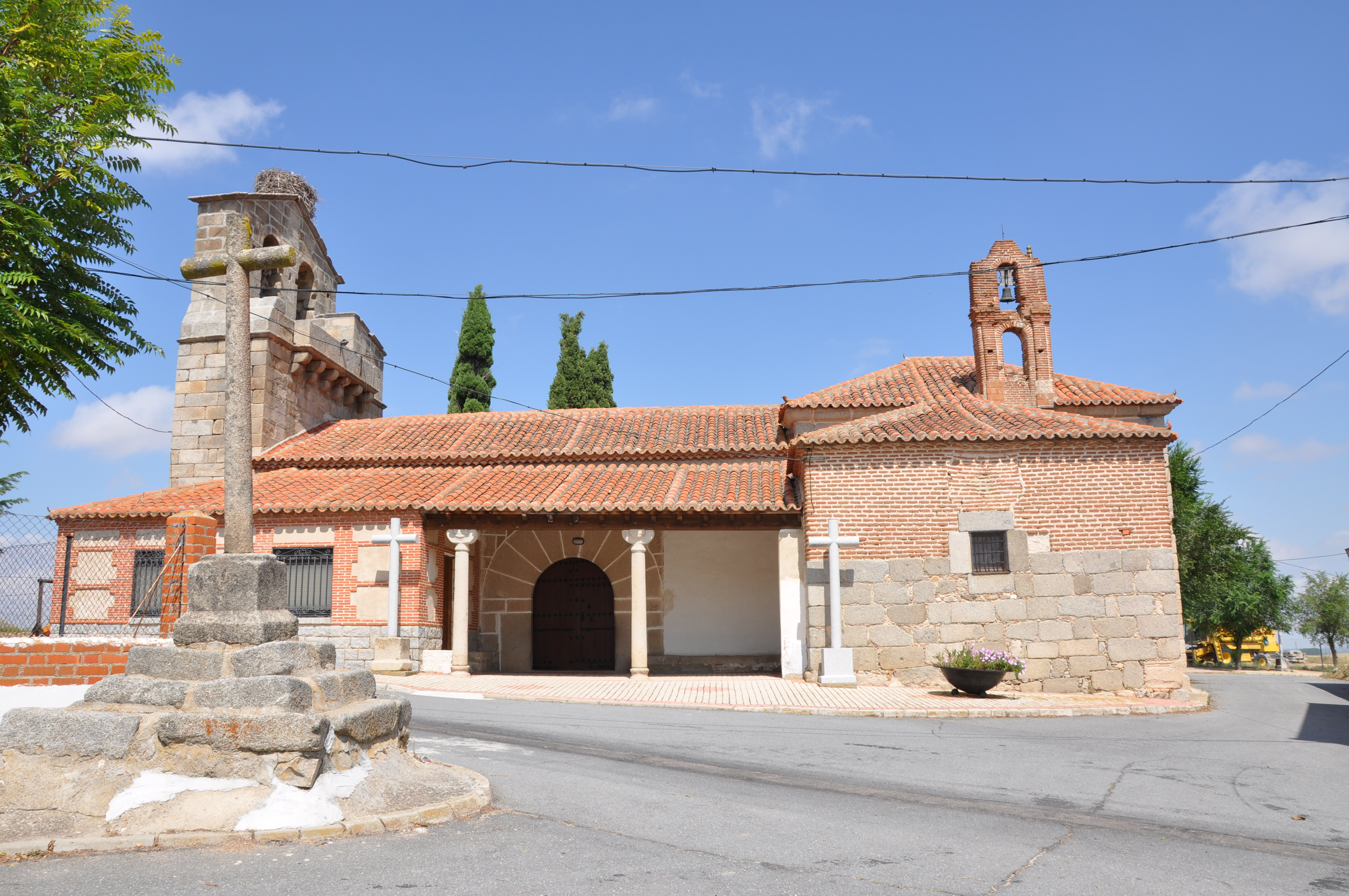 Parish church of Santo Tomas apostle, Aveinte, Avila, Spain.